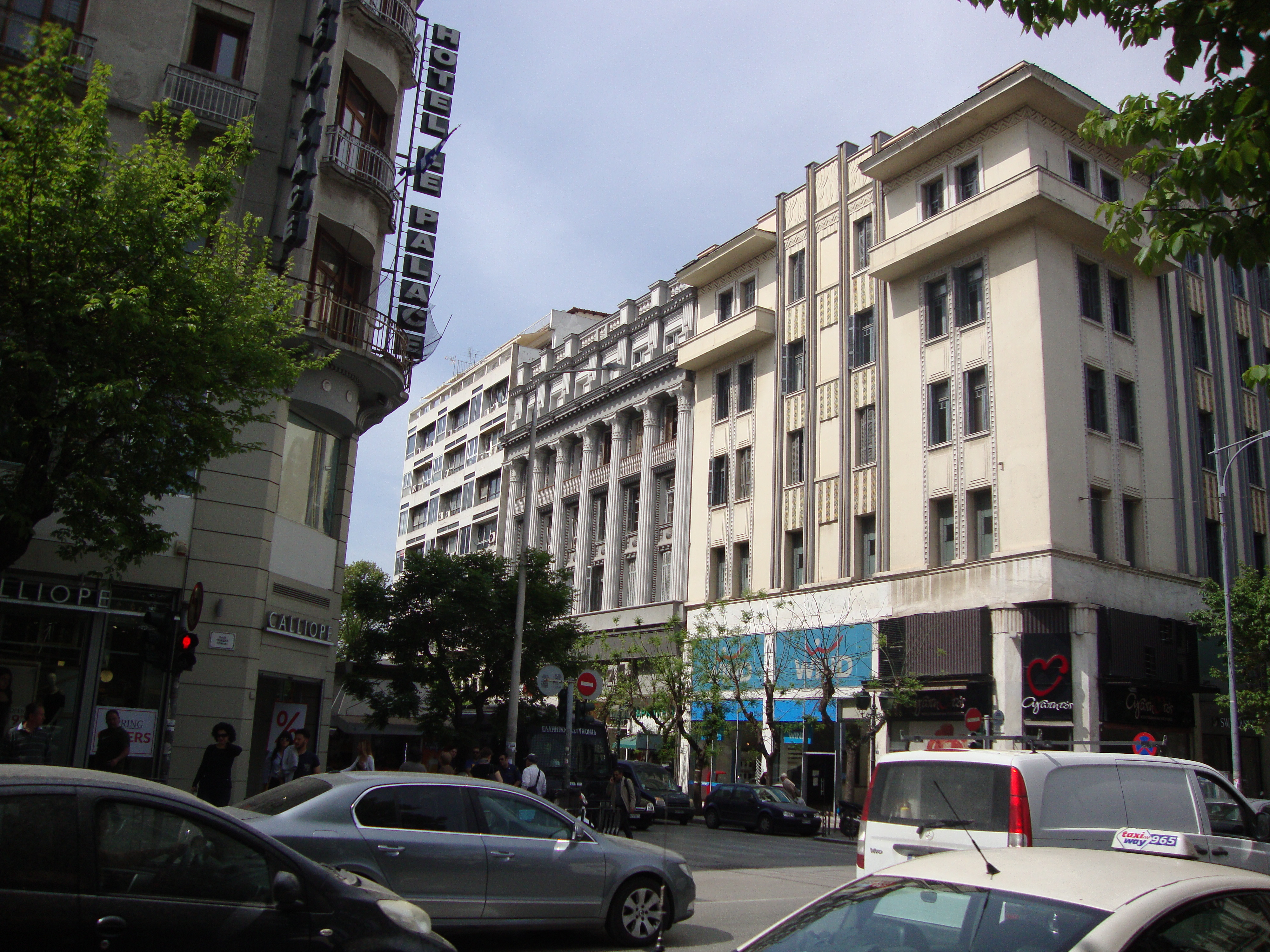 Thessalonikki, Greece